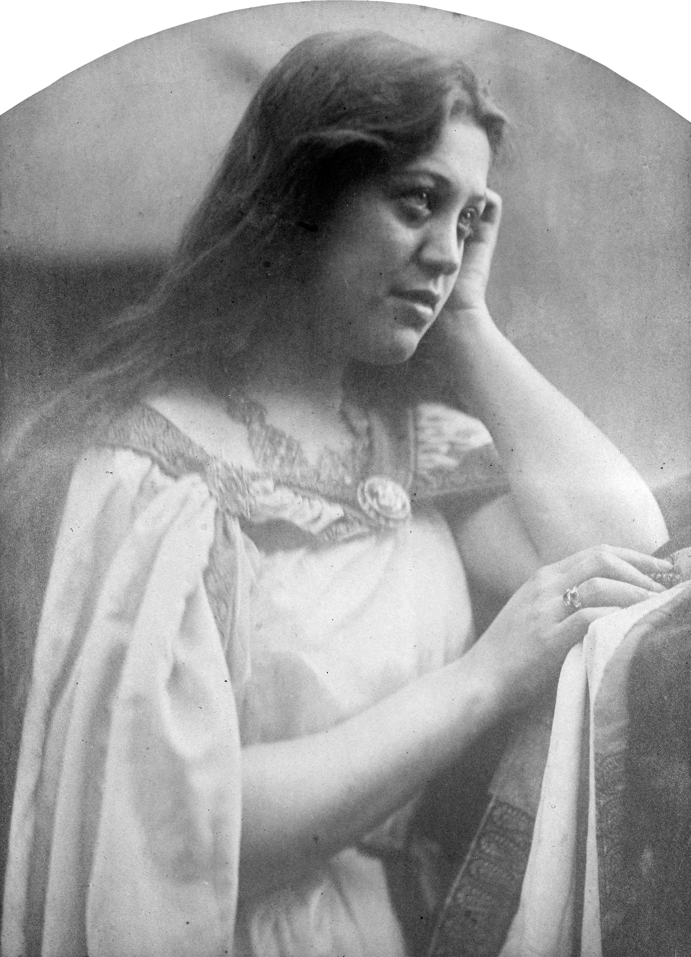 Hannah de Rothschild, later Countess of Rosebery 1871